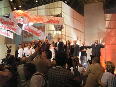 Concert "Honor jest wasz Solidarni".